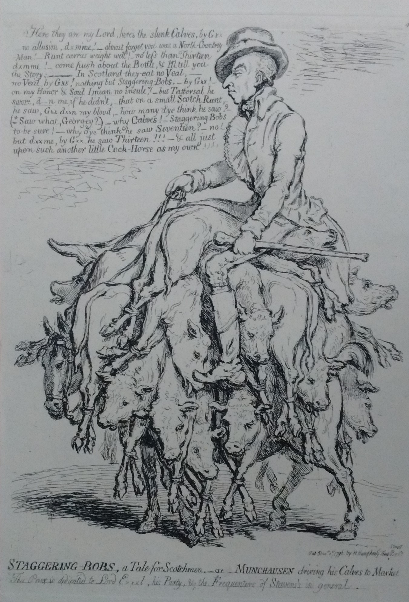 Copy of a page from the Bohn edition of Gillray's works, ca.1850.